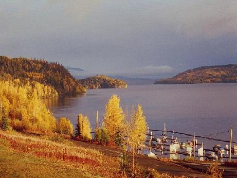 Golden autumn at Babine Lake, near Granisle, BC, CANADA